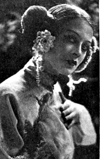 Photo of Lenore Ulric in Broadway play, The Son-Daughter.